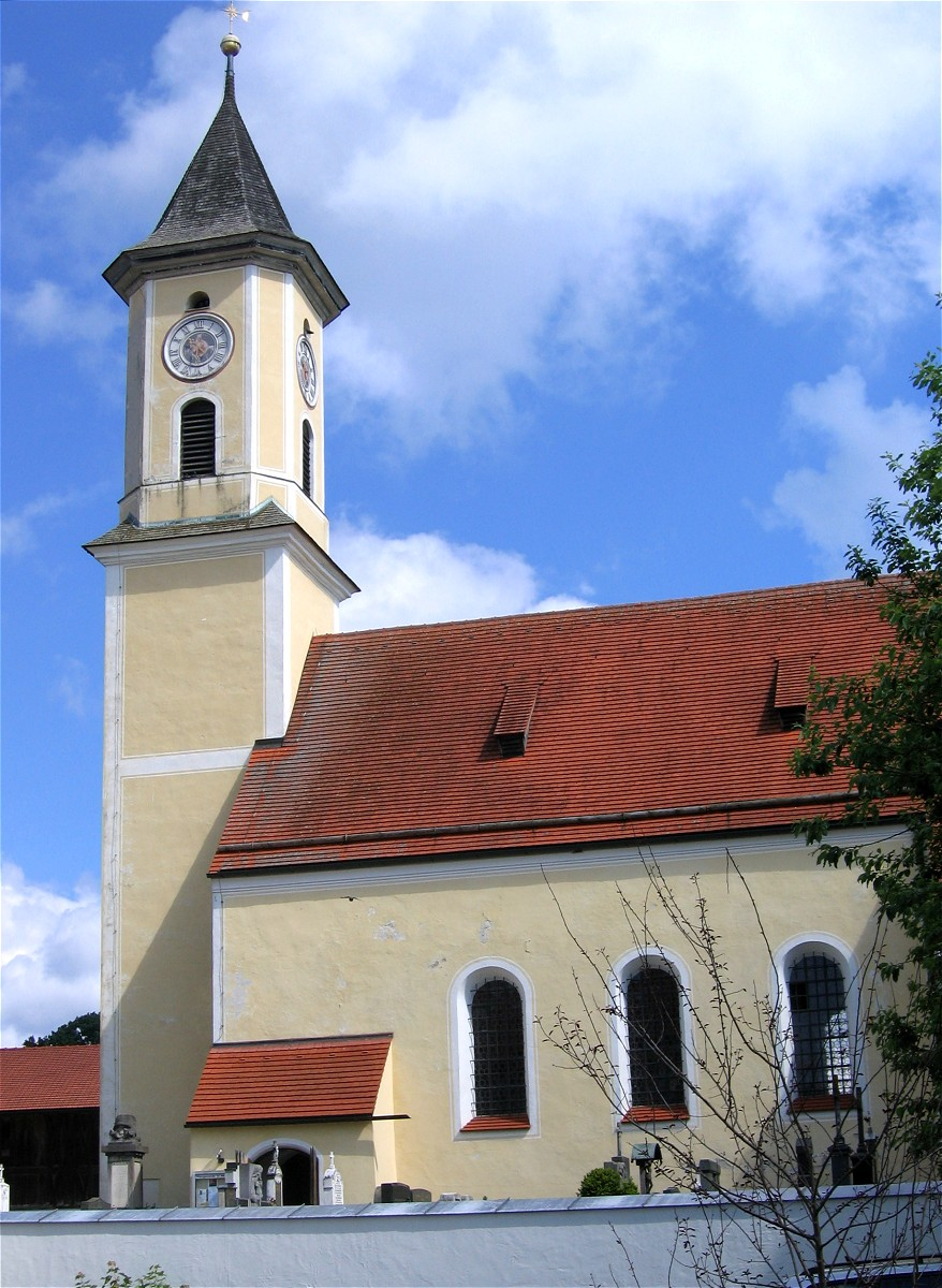 Deining (Egling municipality), view of St Nicholas Parish Church from south.